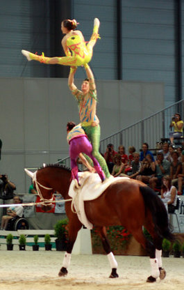 Team Austria at the Vaulting World Championships 2008, Brno Czech Republic